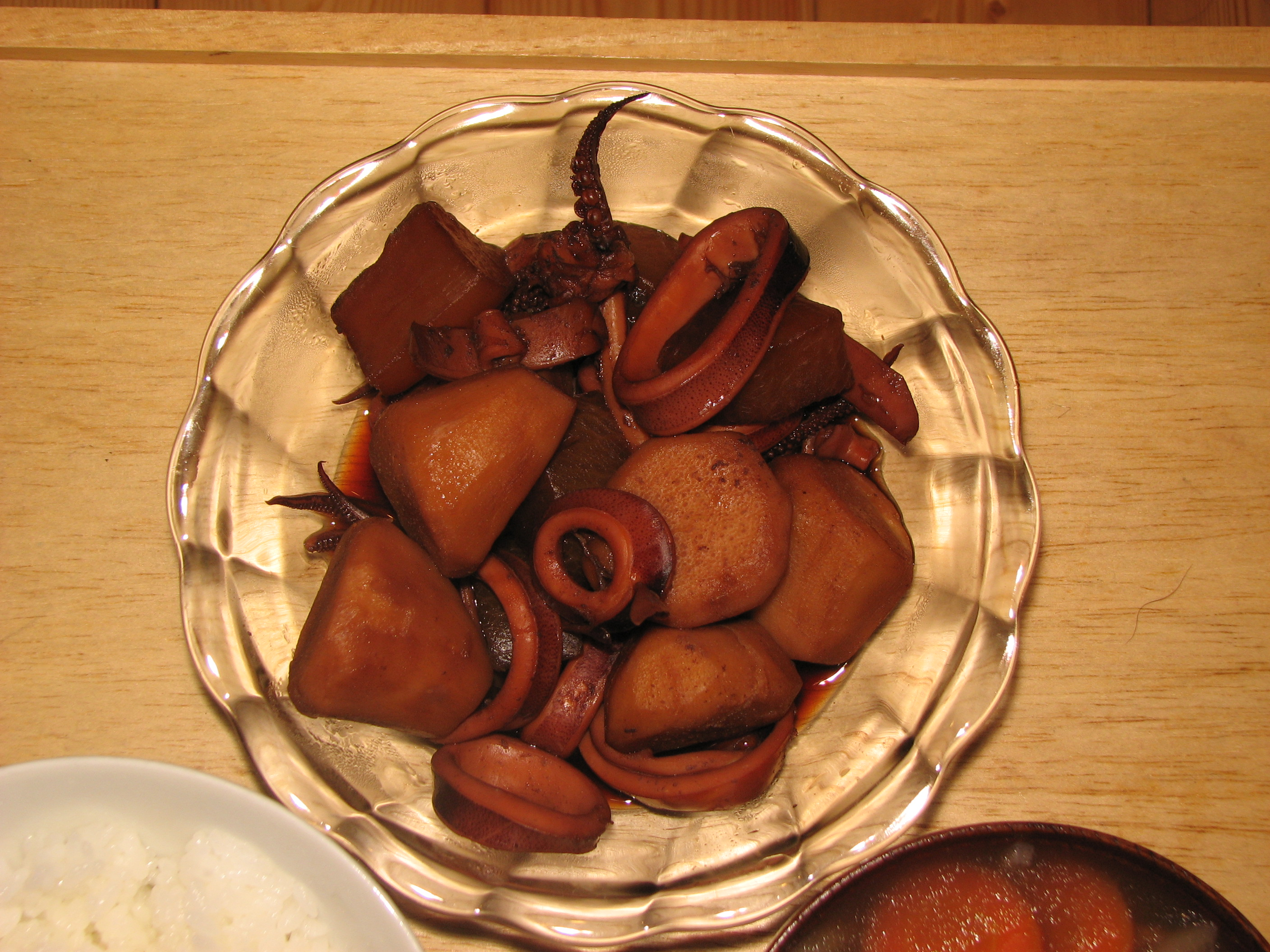 squid and yam simmering ,Japanese style (soy sauce flavor).